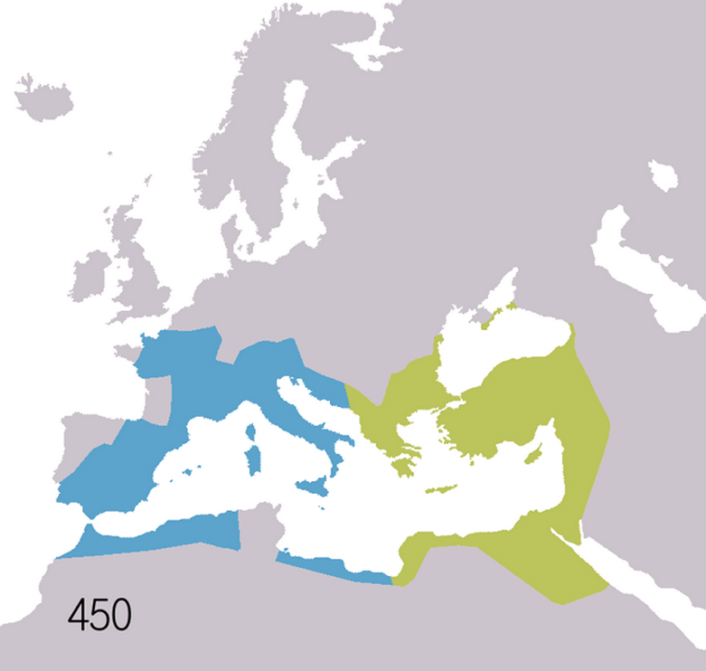 Map of Roman Empire by 450 AD